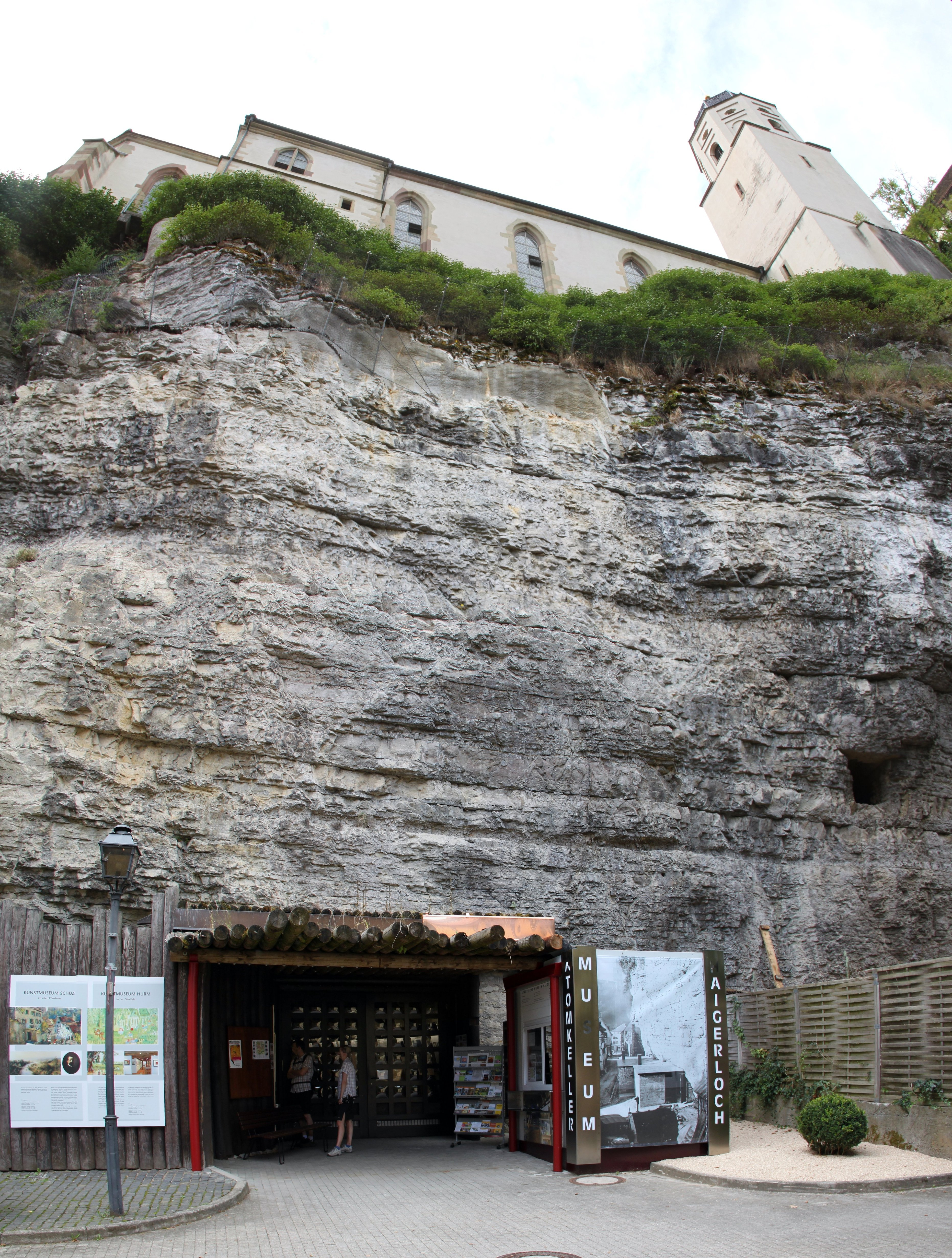 Haigerloch: Entrance to the Atomkeller-Museum (nuclear cellar museum); above: castle rock with castle church.